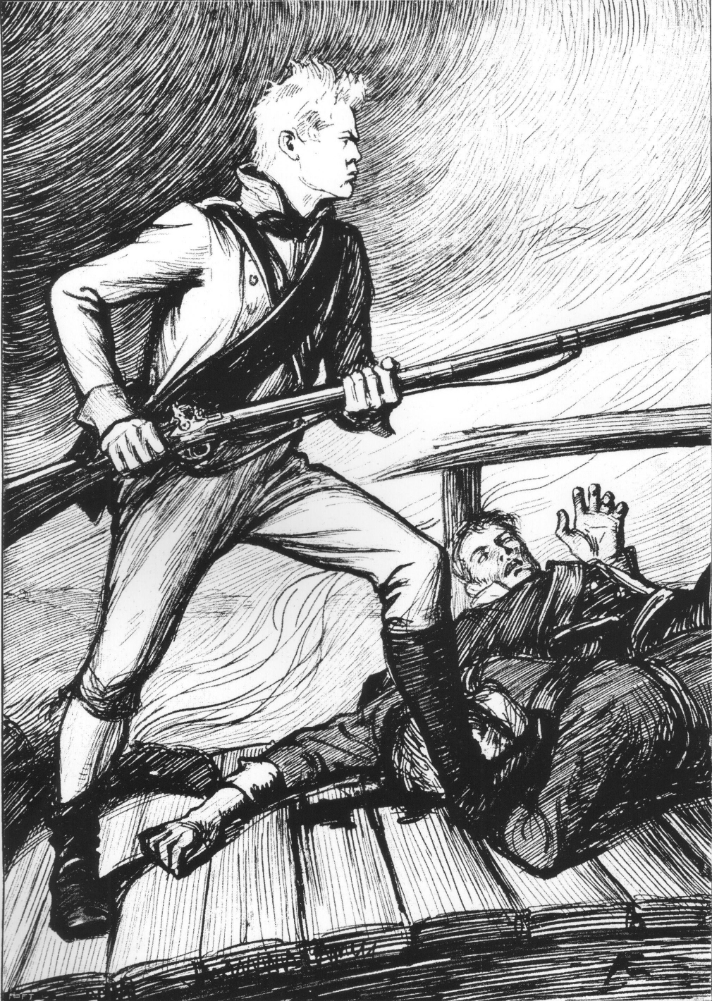 Title: Illustration for Johan Ludvig Runeberg's The Tales of Ensign Stål. This particular image illustrated the poem Sven Dufva. Technique: Drawing Dimensions: Country of origin: Finland Current location (city): Current location (gallery): Other notes